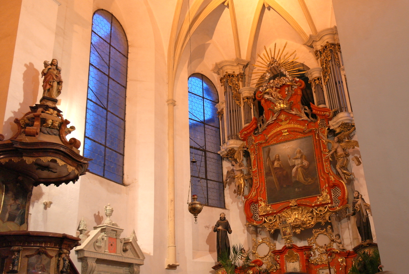 Church of the Holy Trinity (Slaný) Hlaváčkovo square 221, Slaný. Interior.